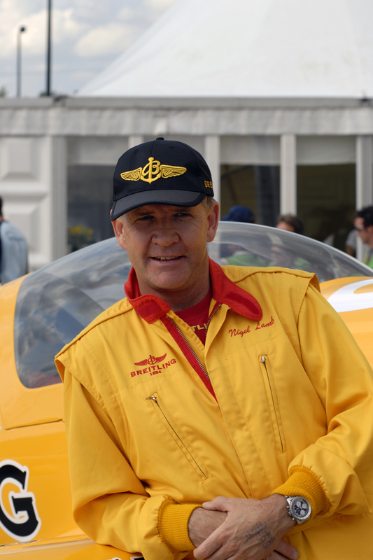 Nigel Lamb at the Red Bull Air Race 2007 in London, England.